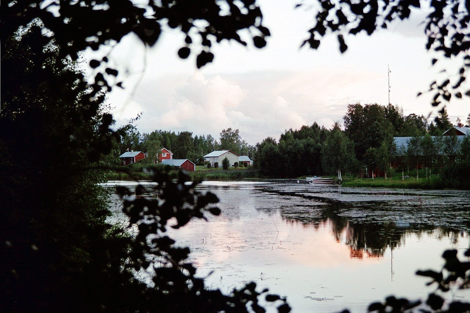 A small lake connected to larger water by a channel ("flada" in Swedish) in Maxmo, Finland